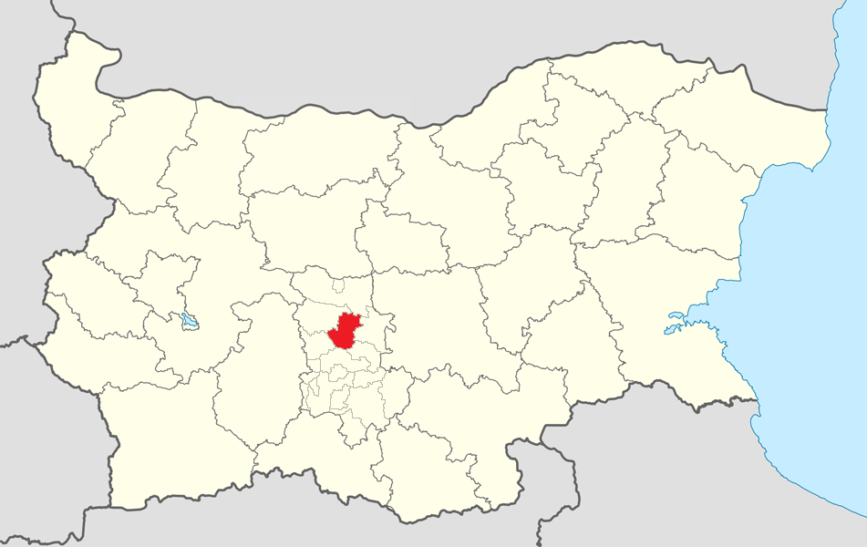 Location map of Kaloyanovo Municipality within Bulgaria and Plovdiv province